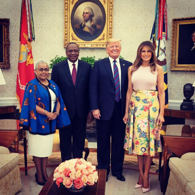 Donald and Melania Trump welcoming Kenya’s President Uhuru Kenyatta and his wife Mrs. Margaret Kenyatta on August 27, 2018